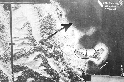 The 1st Battalion, 7th Marines, withdraws from its dangerously exposed position west of Point Cruz, Guadalcanal, under cover of naval gunfire and artillery support in late September, 1942. Modified by User:cla68 on March 19, 2007 to show evacuation route of the battalion to the sea.